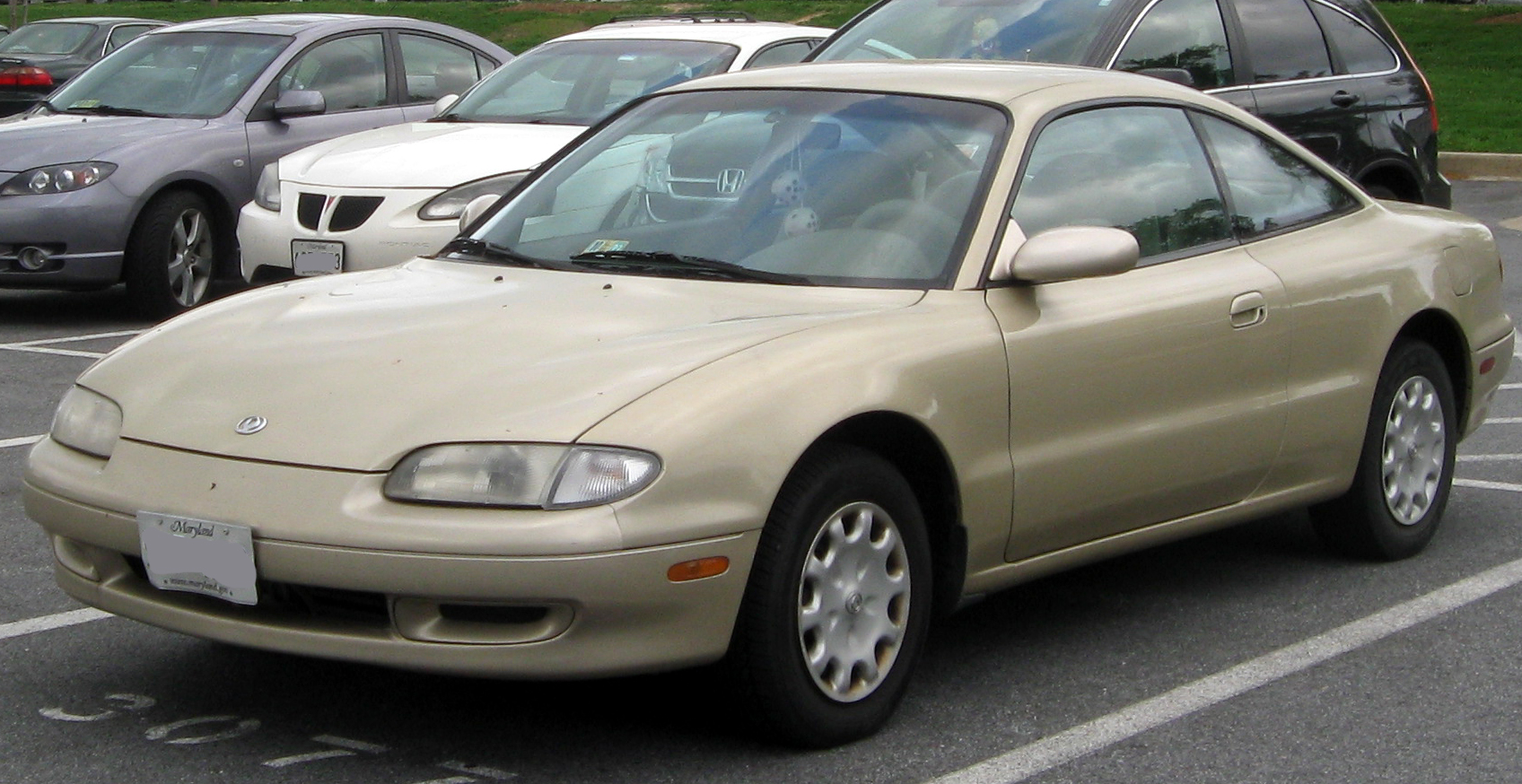 Mazda MX-6 photographed in College Park, Maryland, USA.